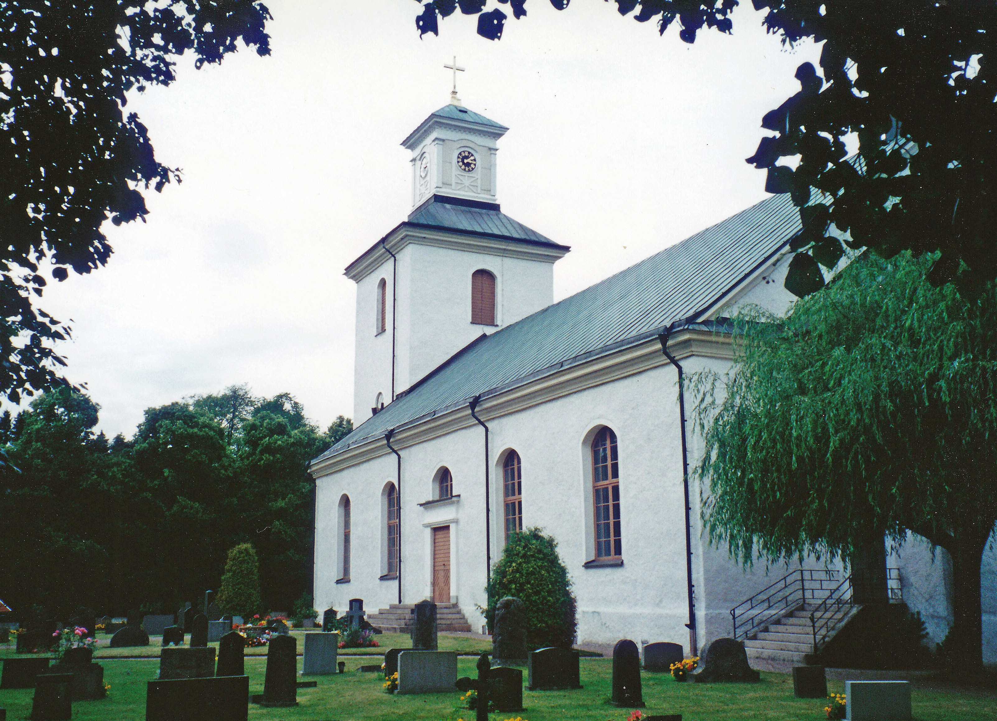 Berg Church. The church, built in neoclassical style was built and designed by Per Axel Nyström from the Superintendent's Office. The inauguration took place in 1835 and förättades by Bishop Esaias Tegner.